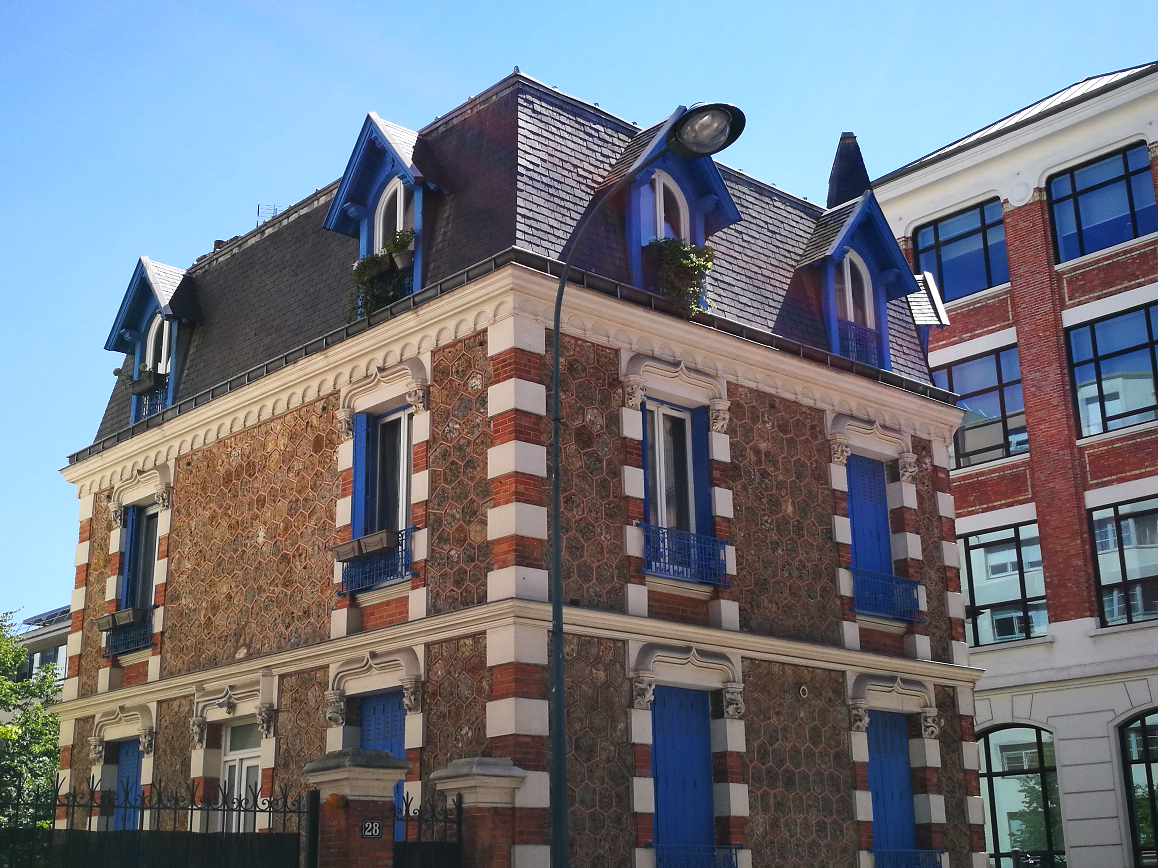 28 Rue Villeneuve, Clichy, France